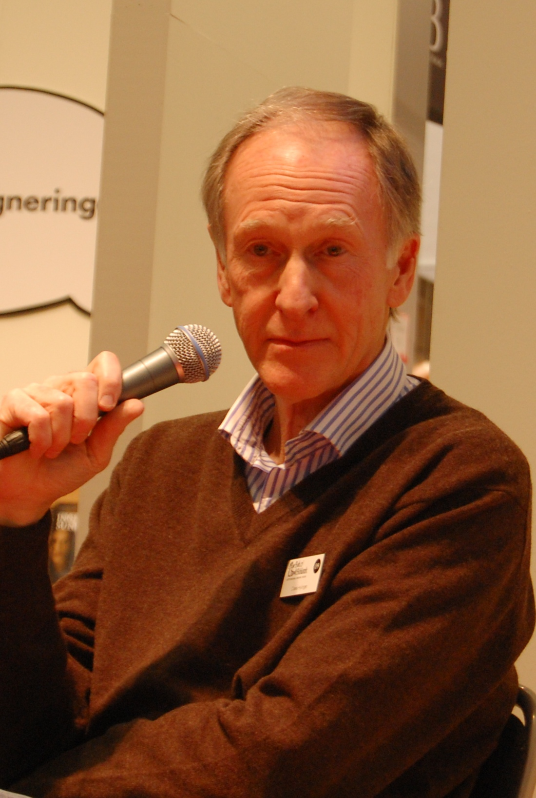 Image from Gothenburg Book Fair 2009